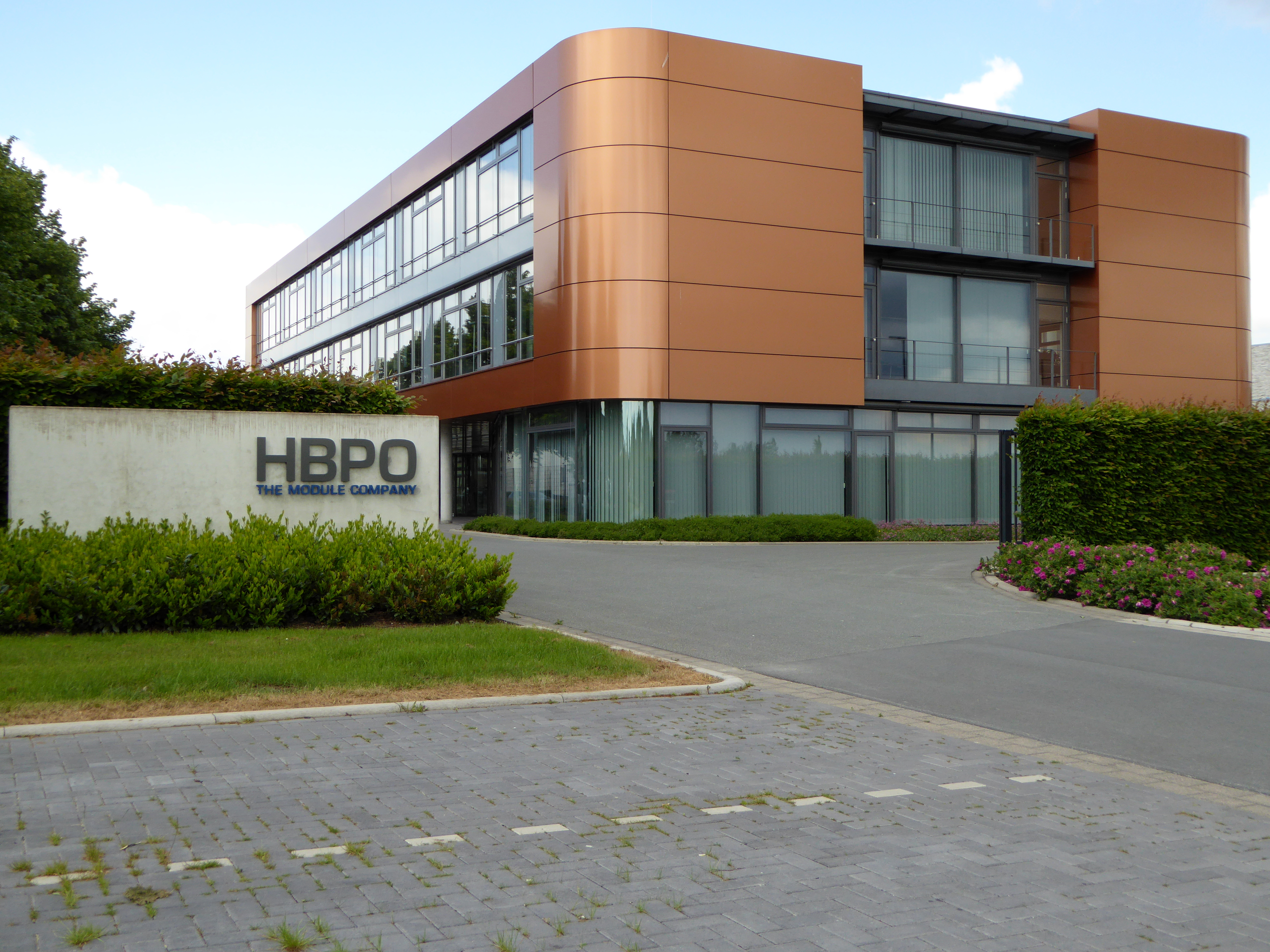 Headquarter of the company HBPO in Lippstadt.